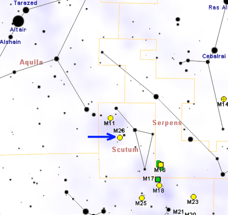 Map of M26